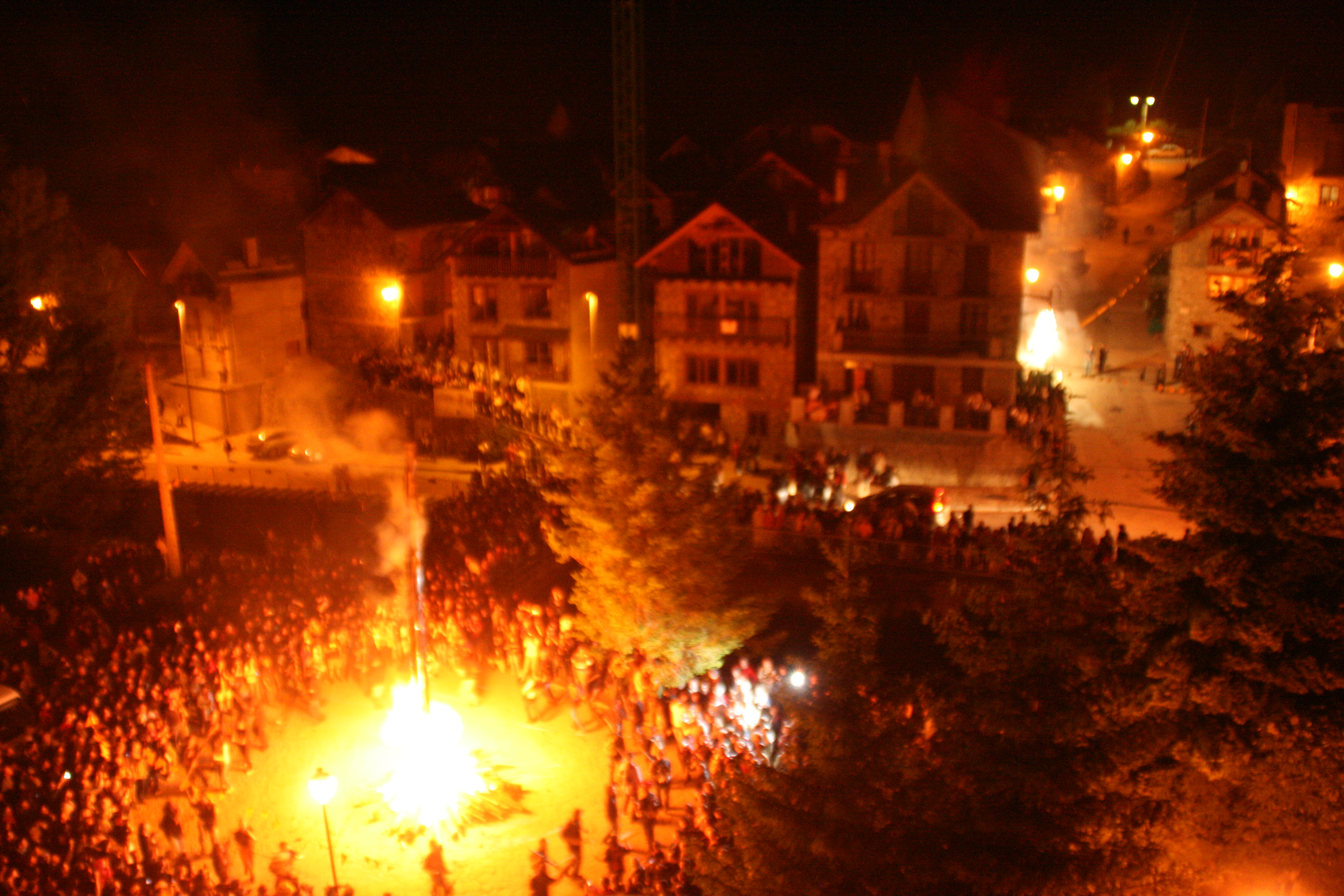 Arround the fire